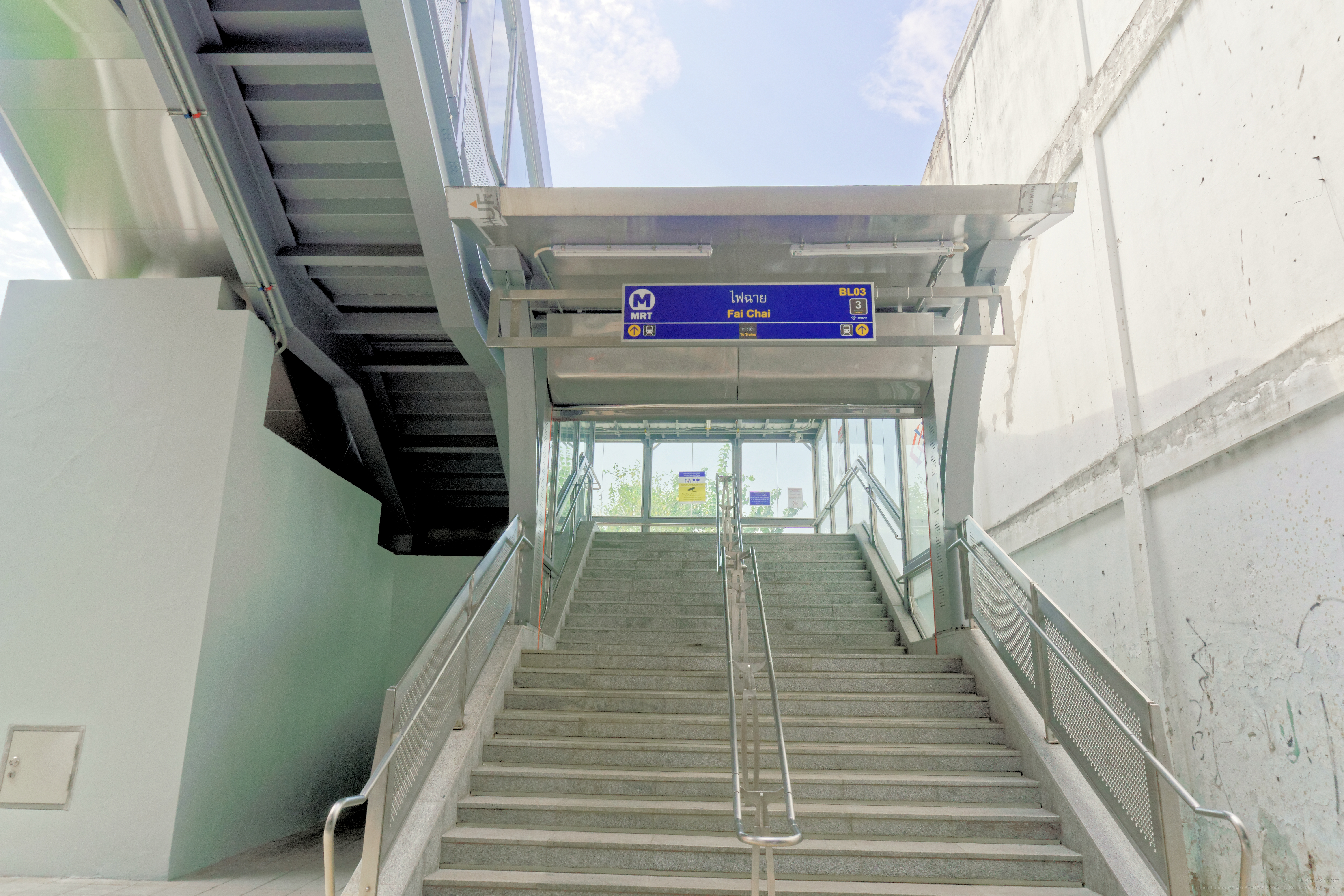 MRT Fai Chai – Exit 3 at Fai Chai junction near Puthamonthon street